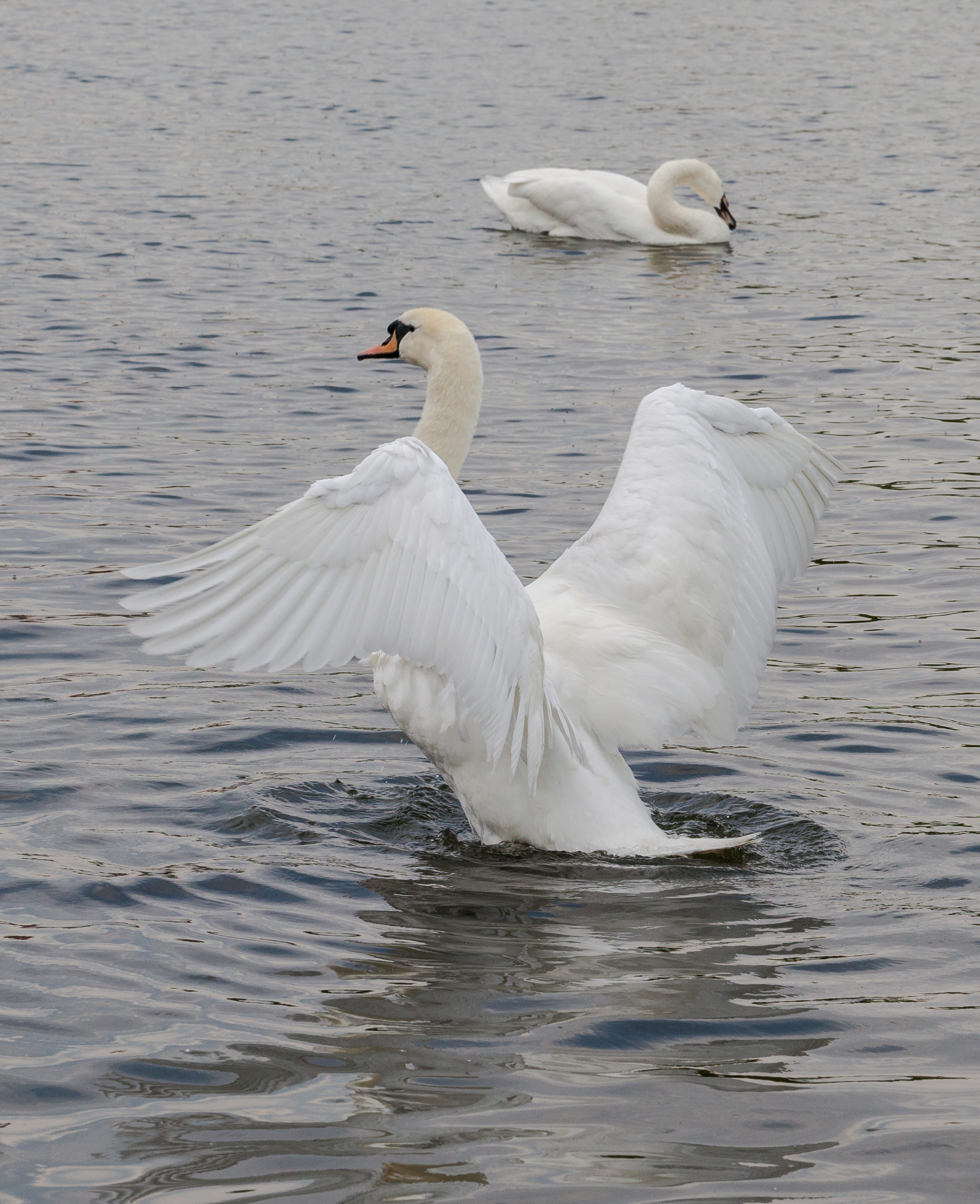 Swan (Cygnus olor) at the Nymphenburg Palace, Munich, Germany